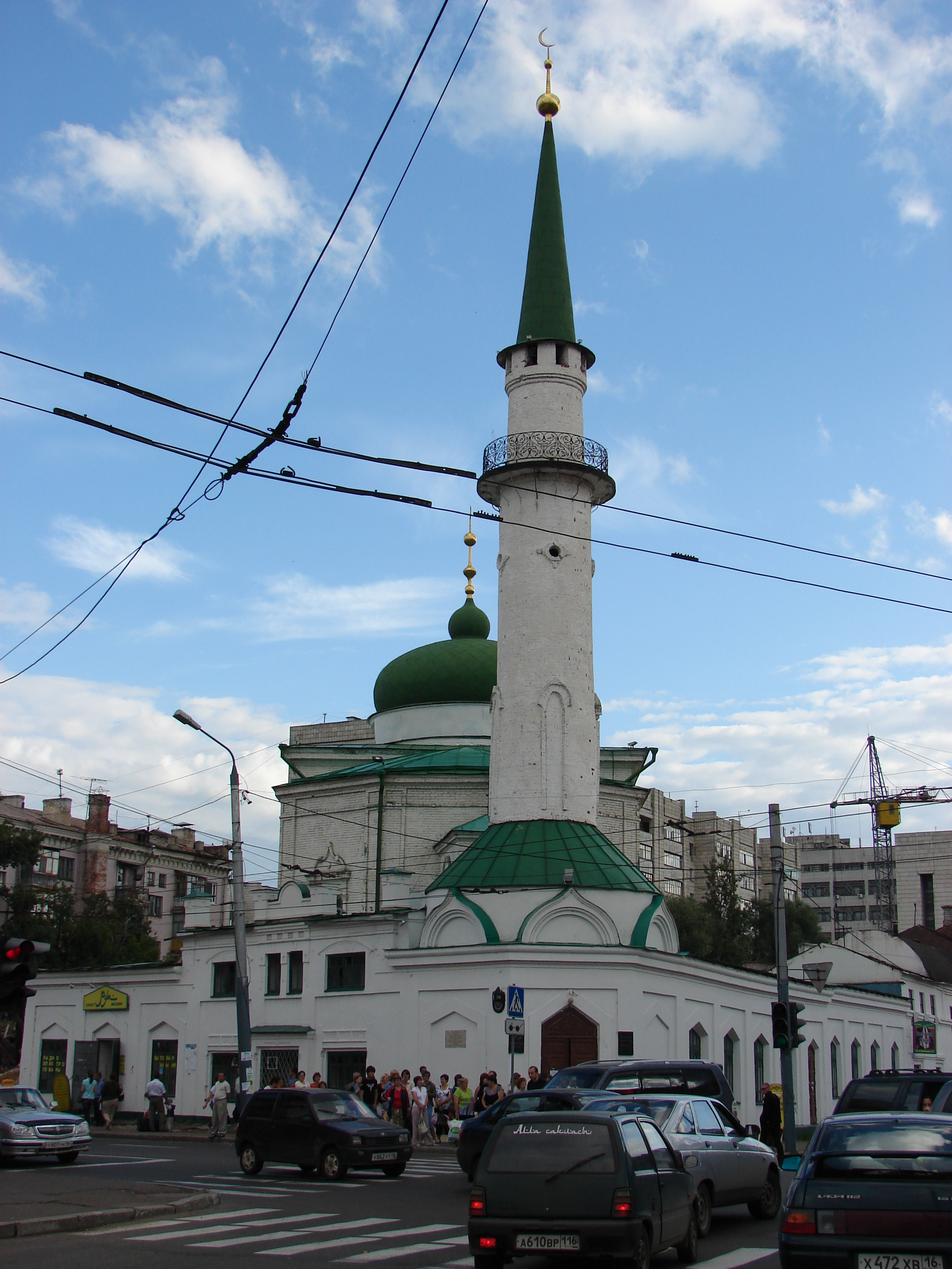 Nurulla Mosque. Interlingua: Mosque de Nurulla.